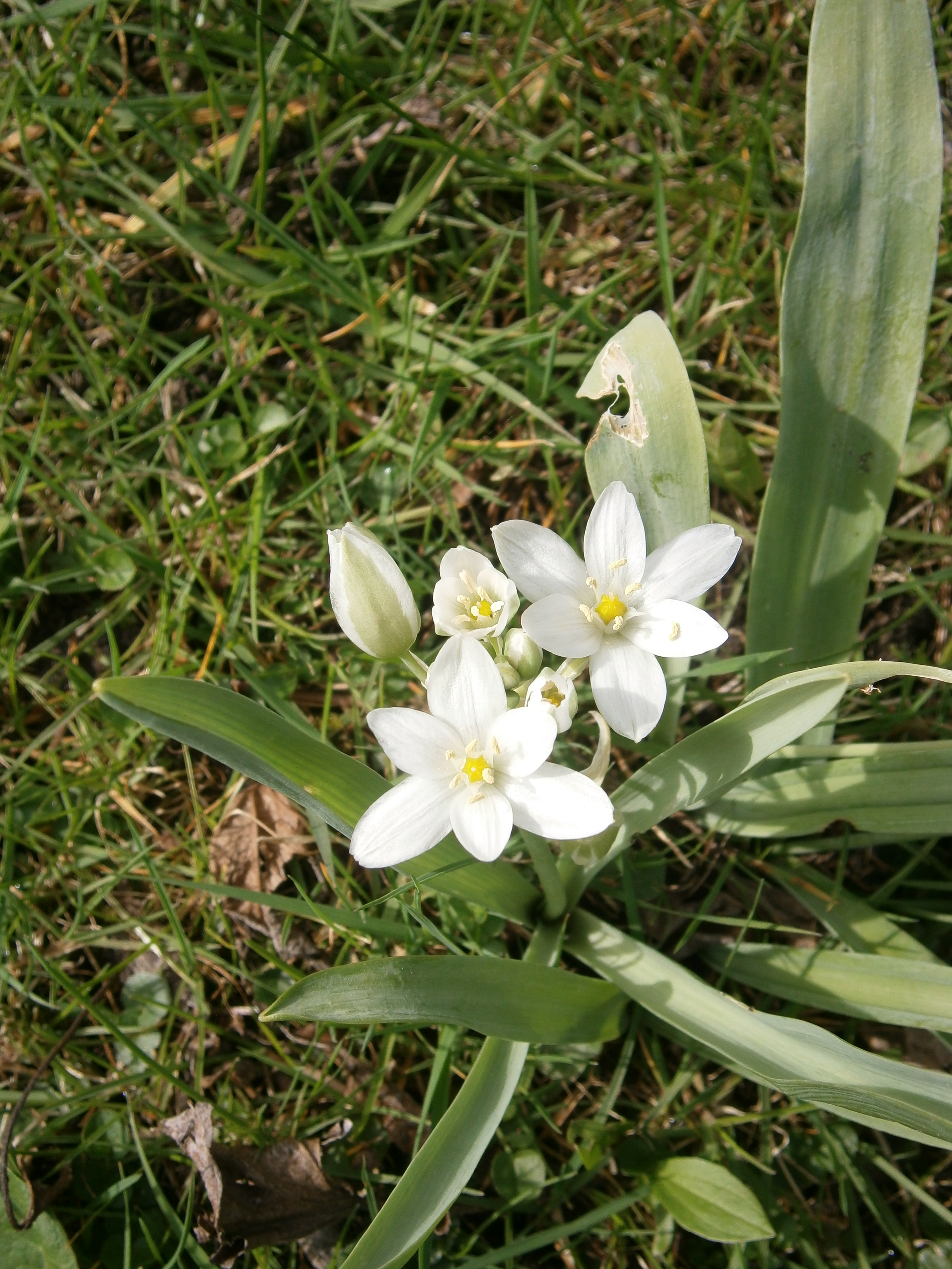 Ornithogalum balansae